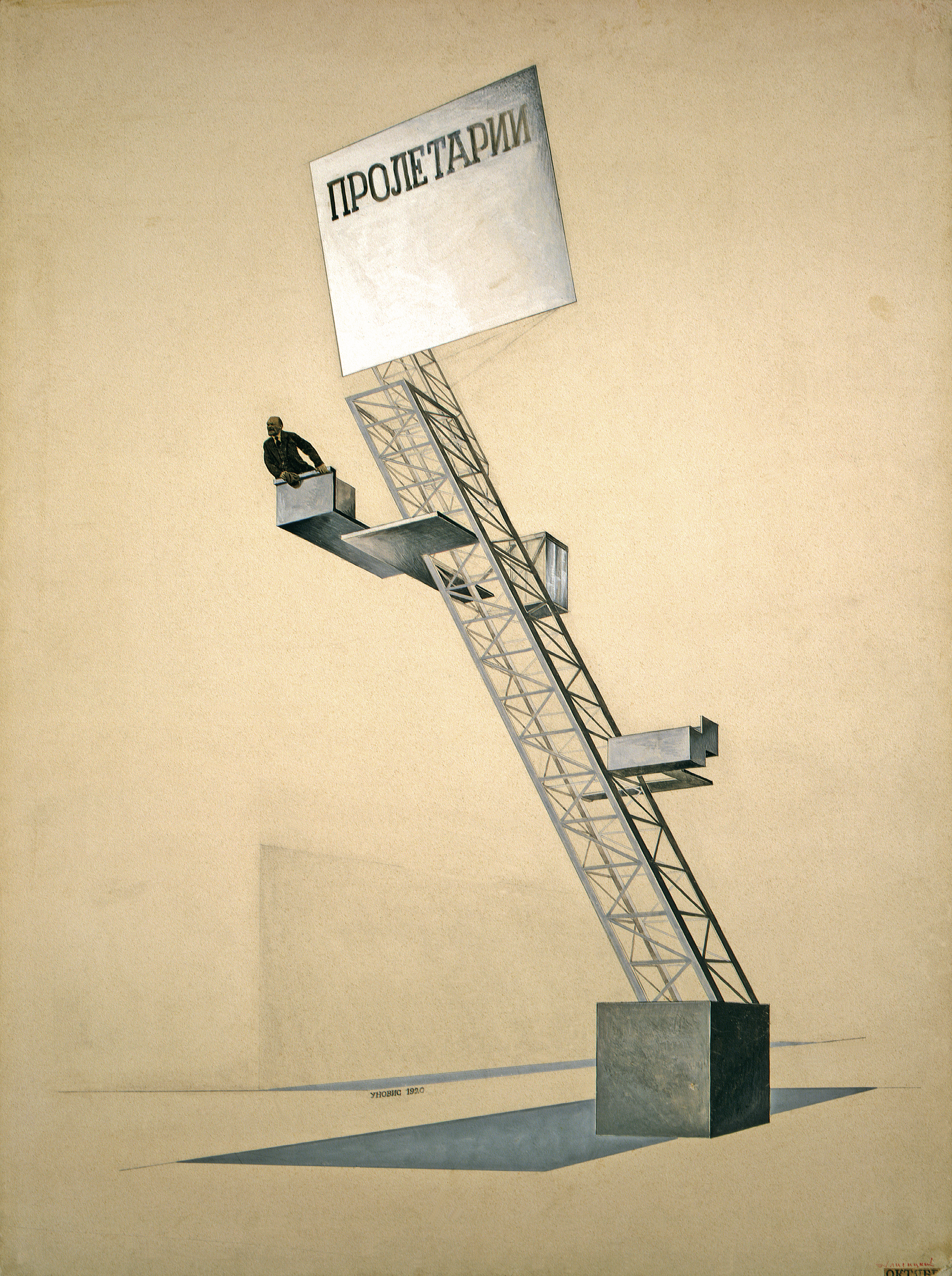 Lenin Tribune, sketch by El Lissitzky, 1920. Collection State Tretyakov Gallery, Moscow